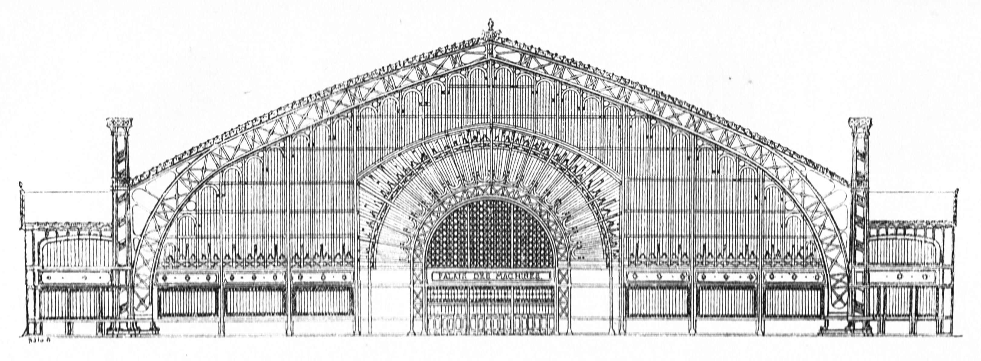 Paris - Exposition Universal 1889, machine hall, elevation 1:1000